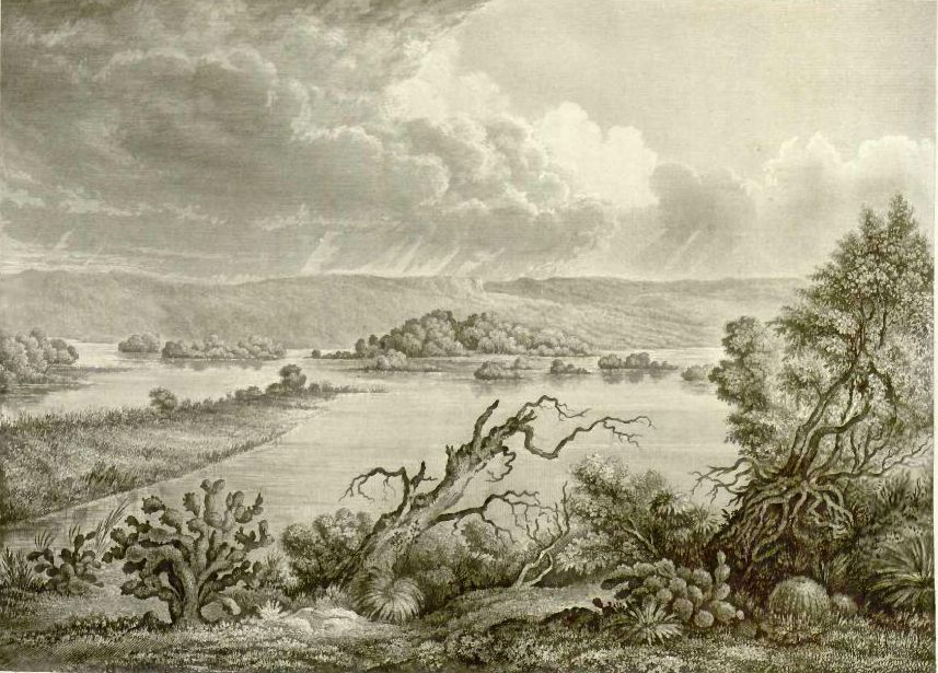 Las Isletas Falls of Presidio de Rio Grande